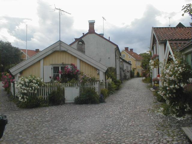 Alleys in the old town of Kalmar, Sweden Photo taken by Mazbln on July 4, 2002